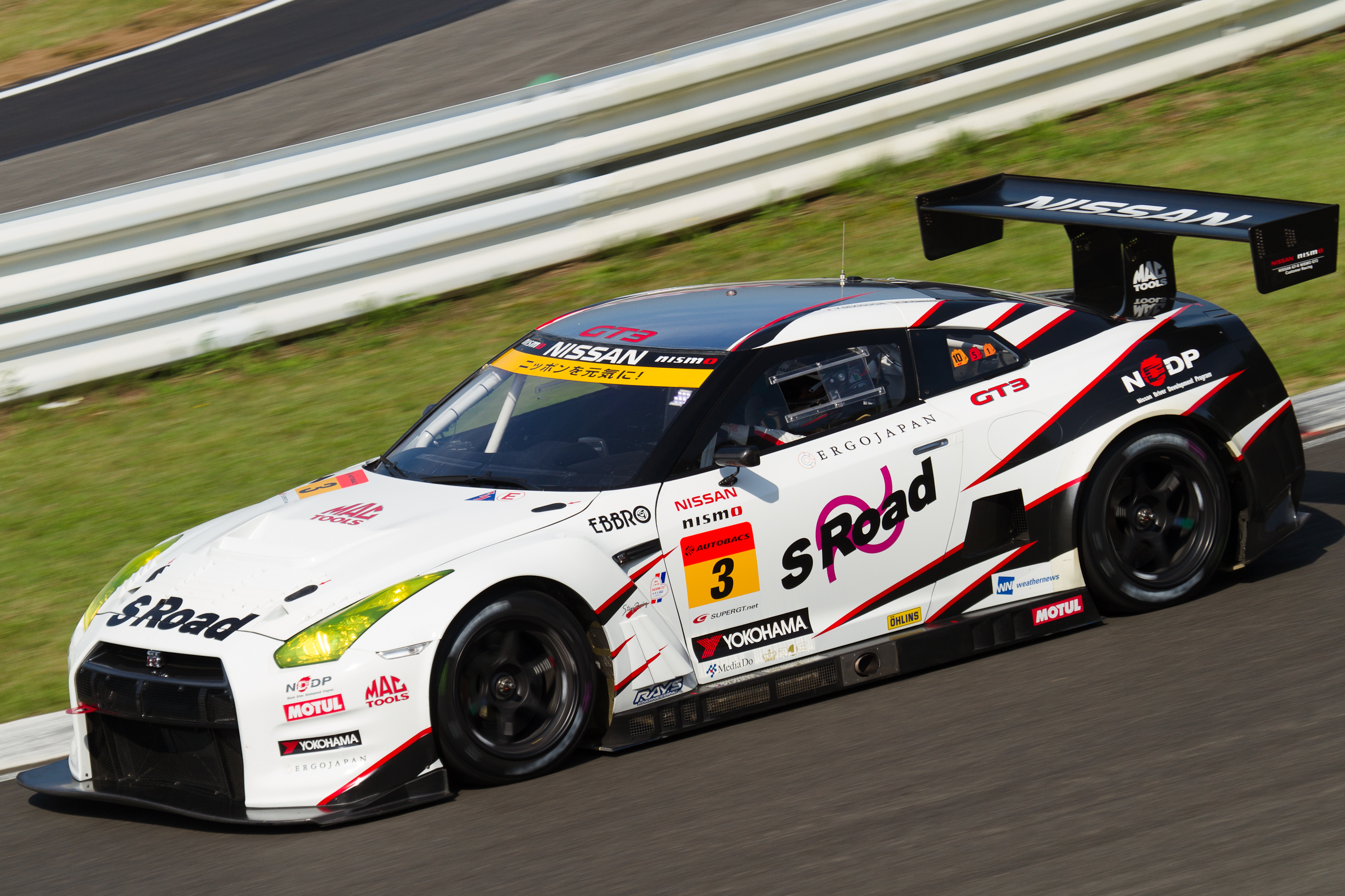 Super GT 2012 Rd.4 SUGO GT 300km: Yuhi Sekiguchi (NDDP Racing) driving the Nissan GT-R GT3.